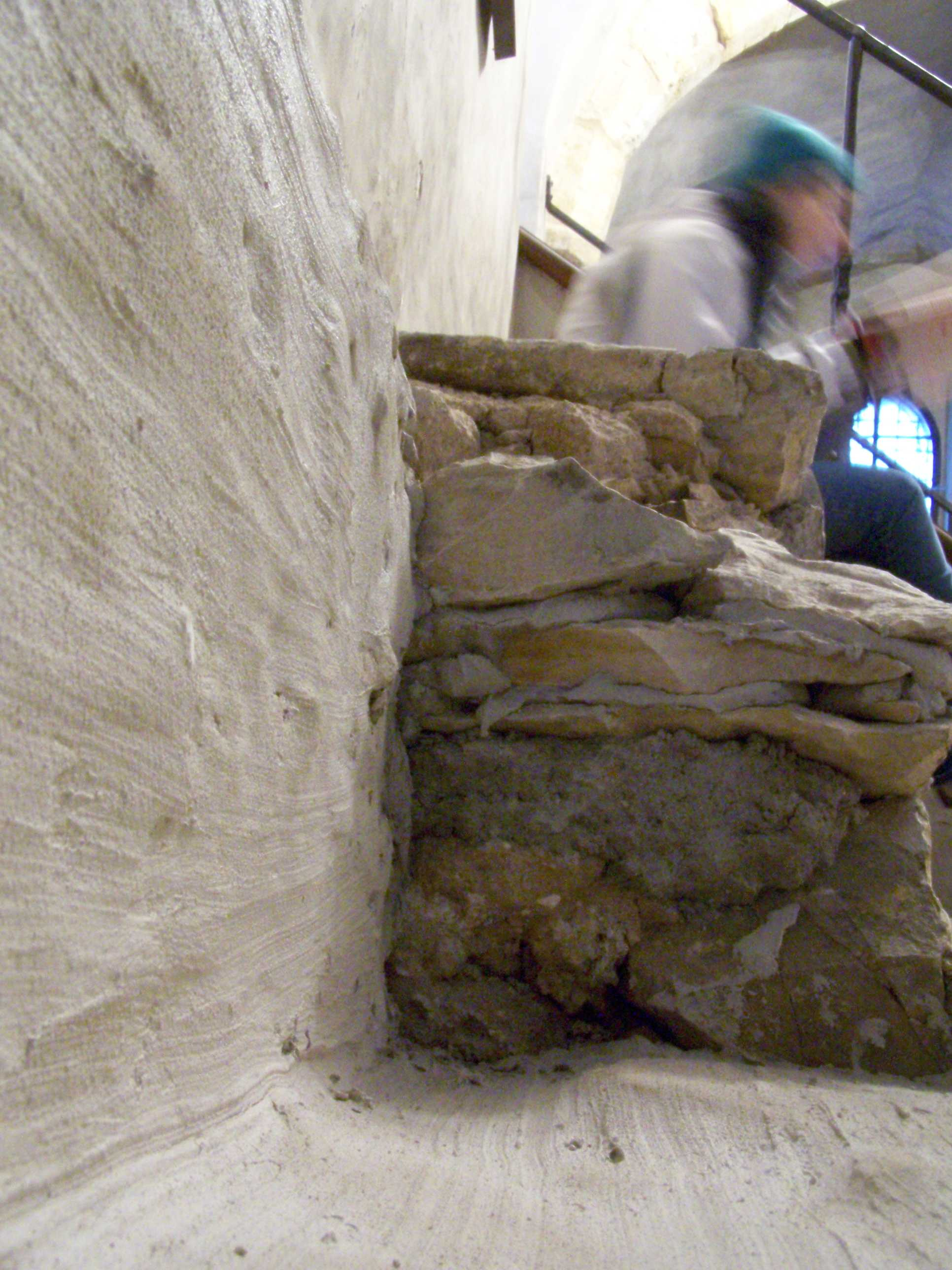 Destroyed bench in Old New Synagogue, Prague